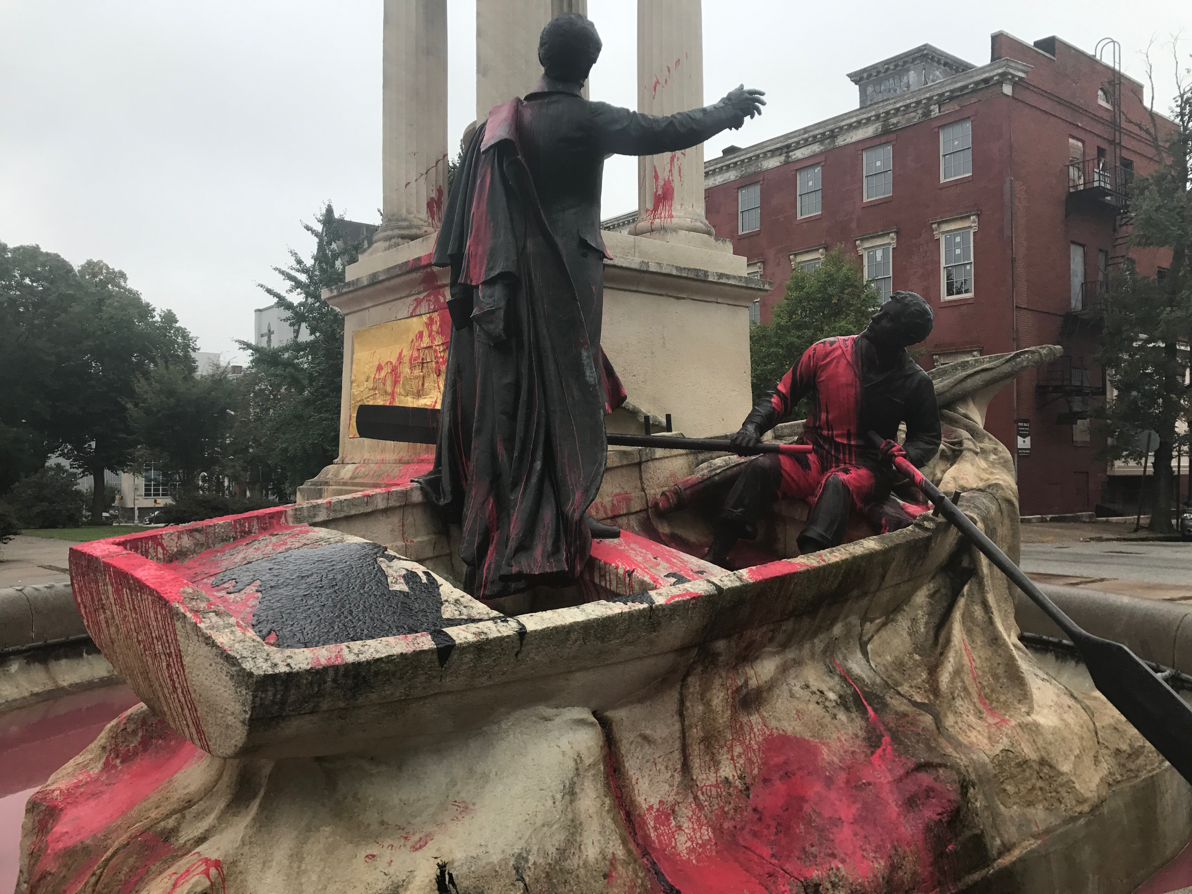 Photograph by Eli Pousson, 2017 September 13.